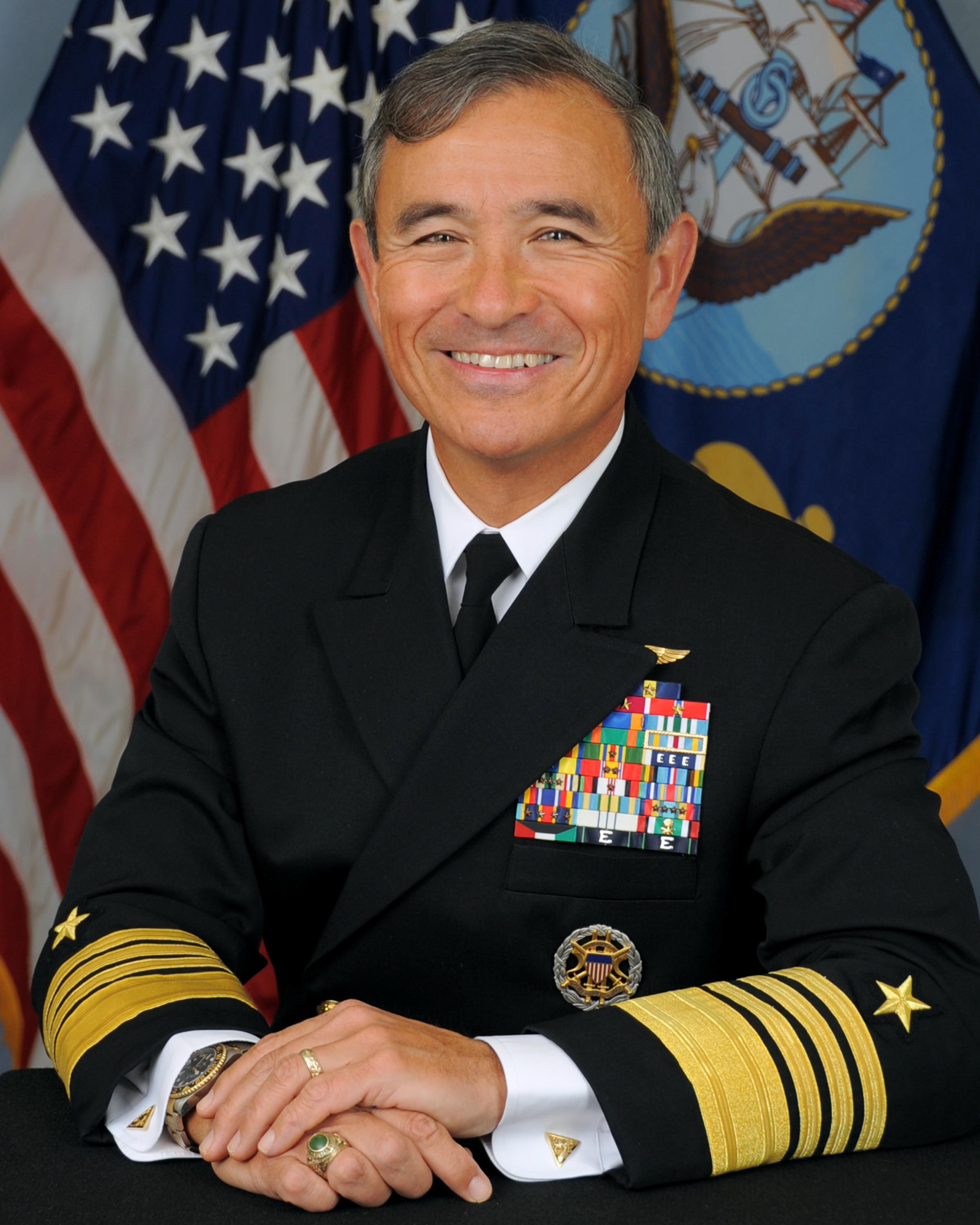 Admiral Harry B. Harris, Jr., USN61st Commander, U.S. Pacific Fleet